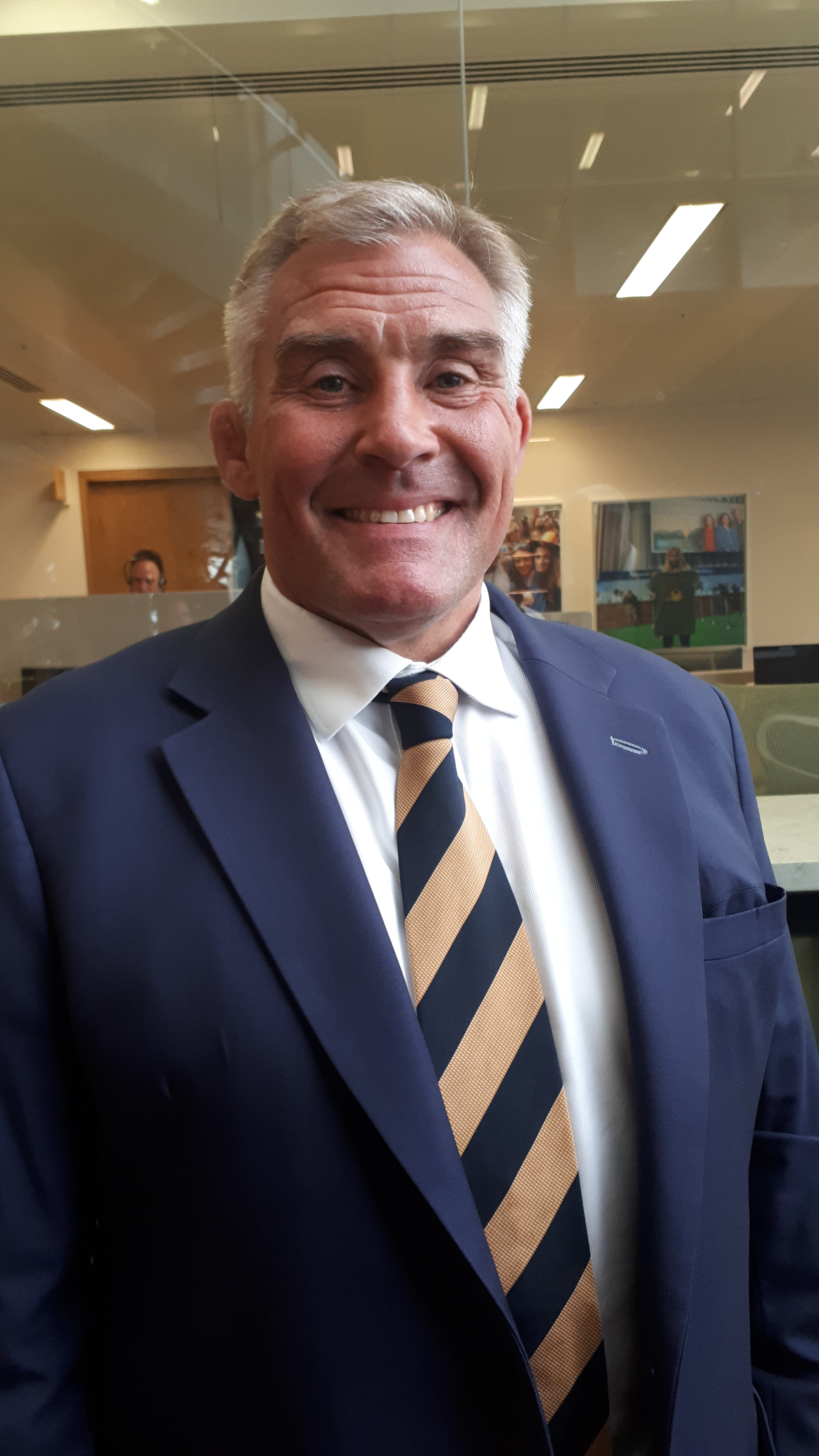 Jason Leonard, photographed in London, 8 June 2018